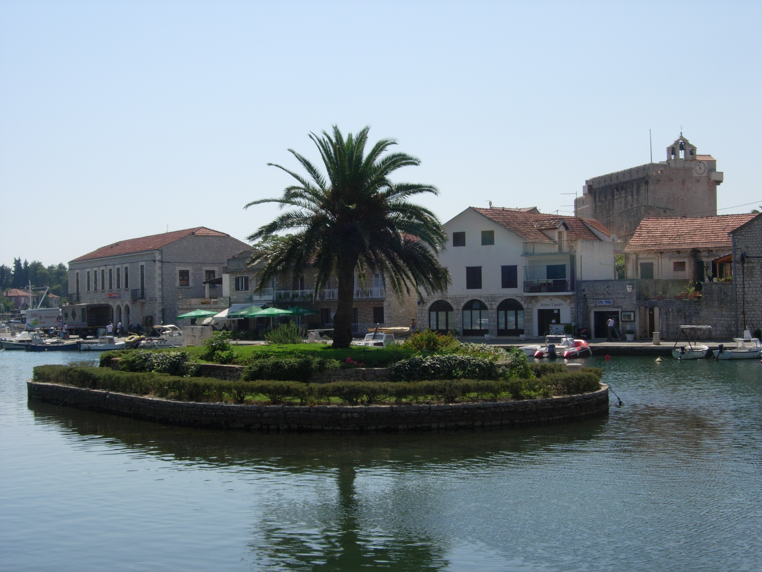 Vrboska, island and church of St Mary of Grace.jpg